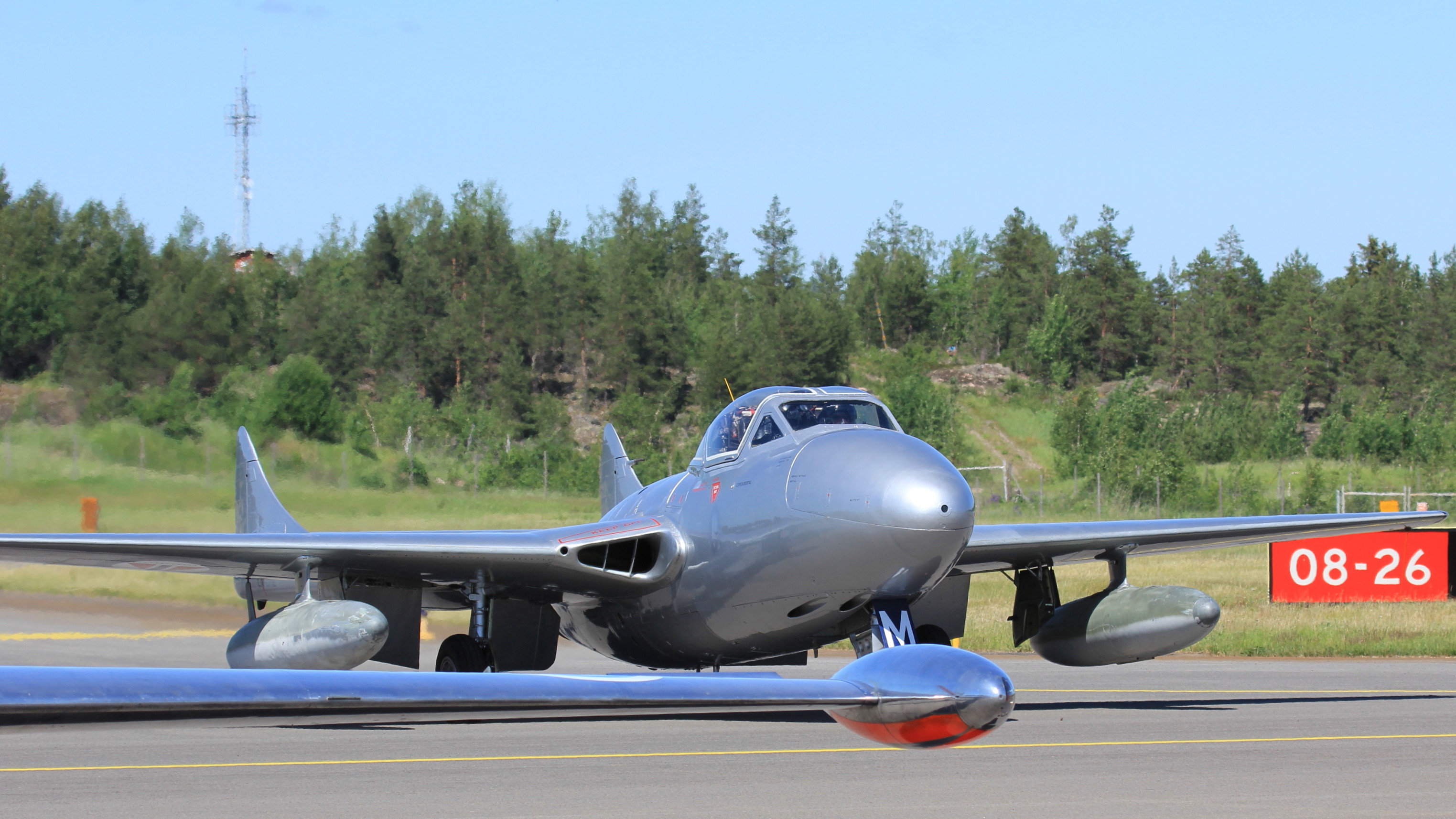 De Havilland Vampire, Turku Airshow 2019, Turku, Finland. - De Havilland Vampire, tail code LN-DHZ, pilot: Jyri Mattila. - Just landed.